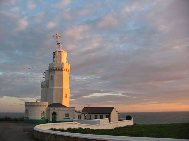 St Catherine's Lighthouse at Sunset